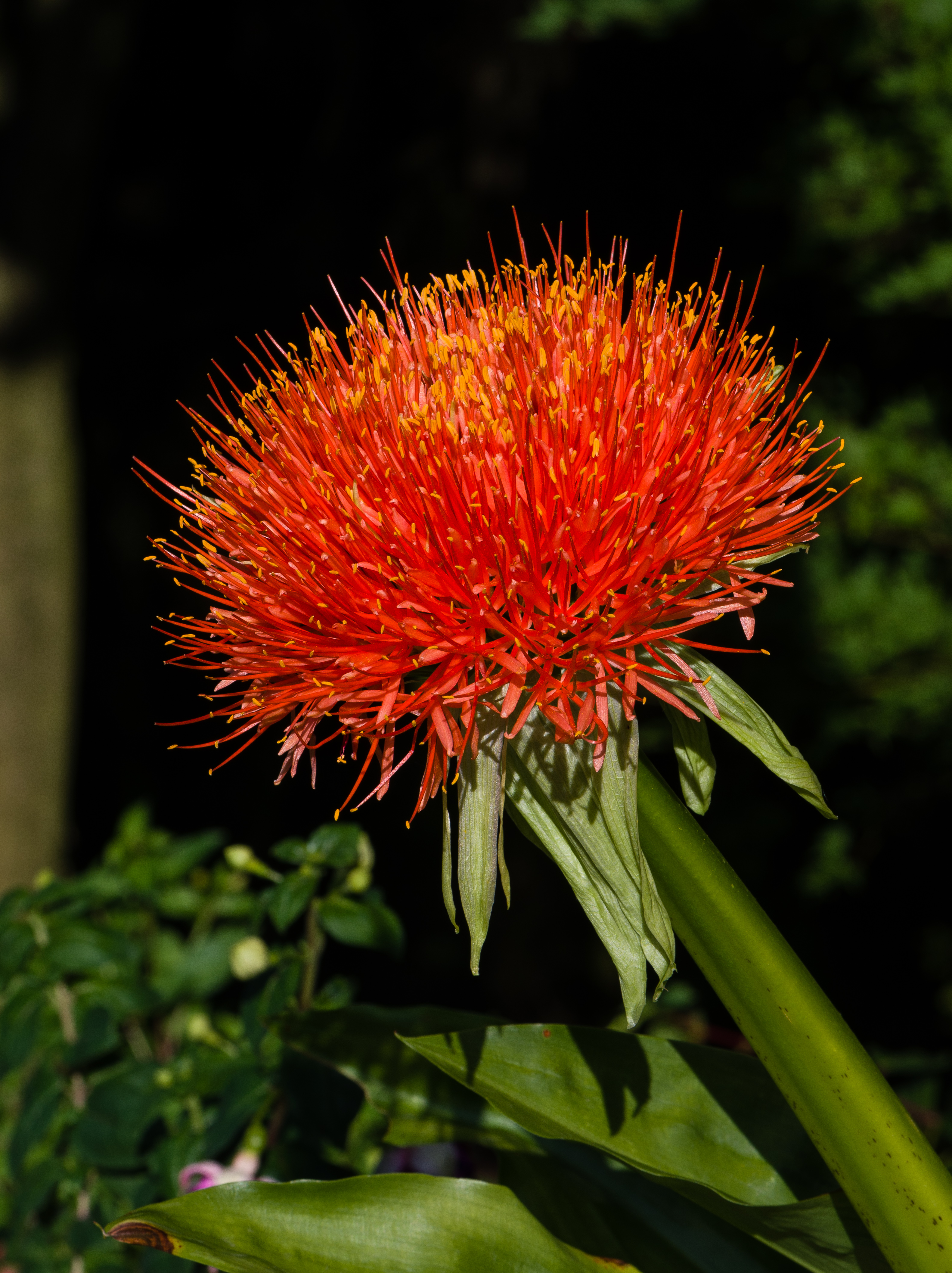 Scadoxus multiflorus